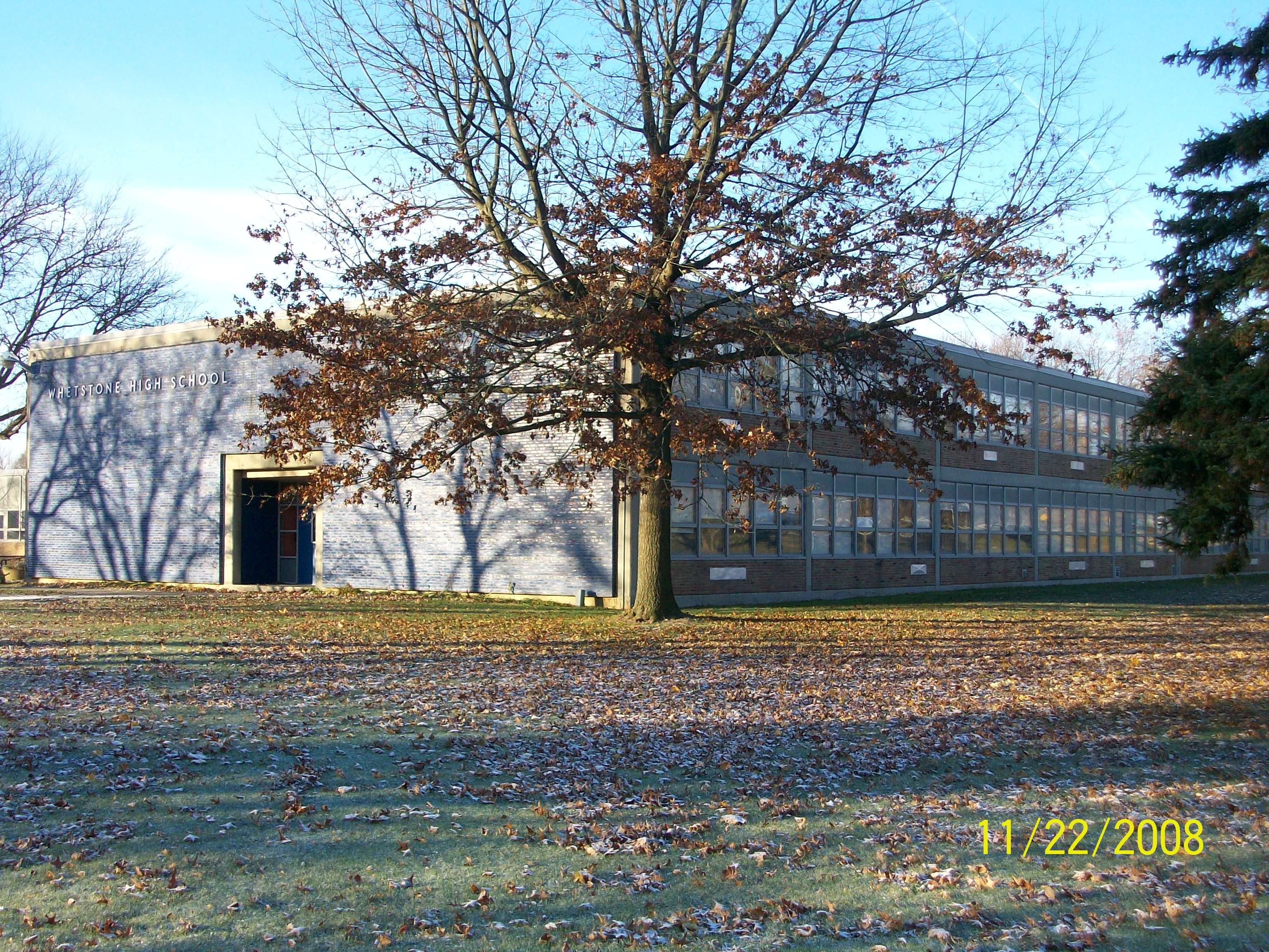 Main entrance to Whetstone High School (in the Beechwold neighborhood of the Clintonville area of Columbus), viewed from the northeast corner of the school